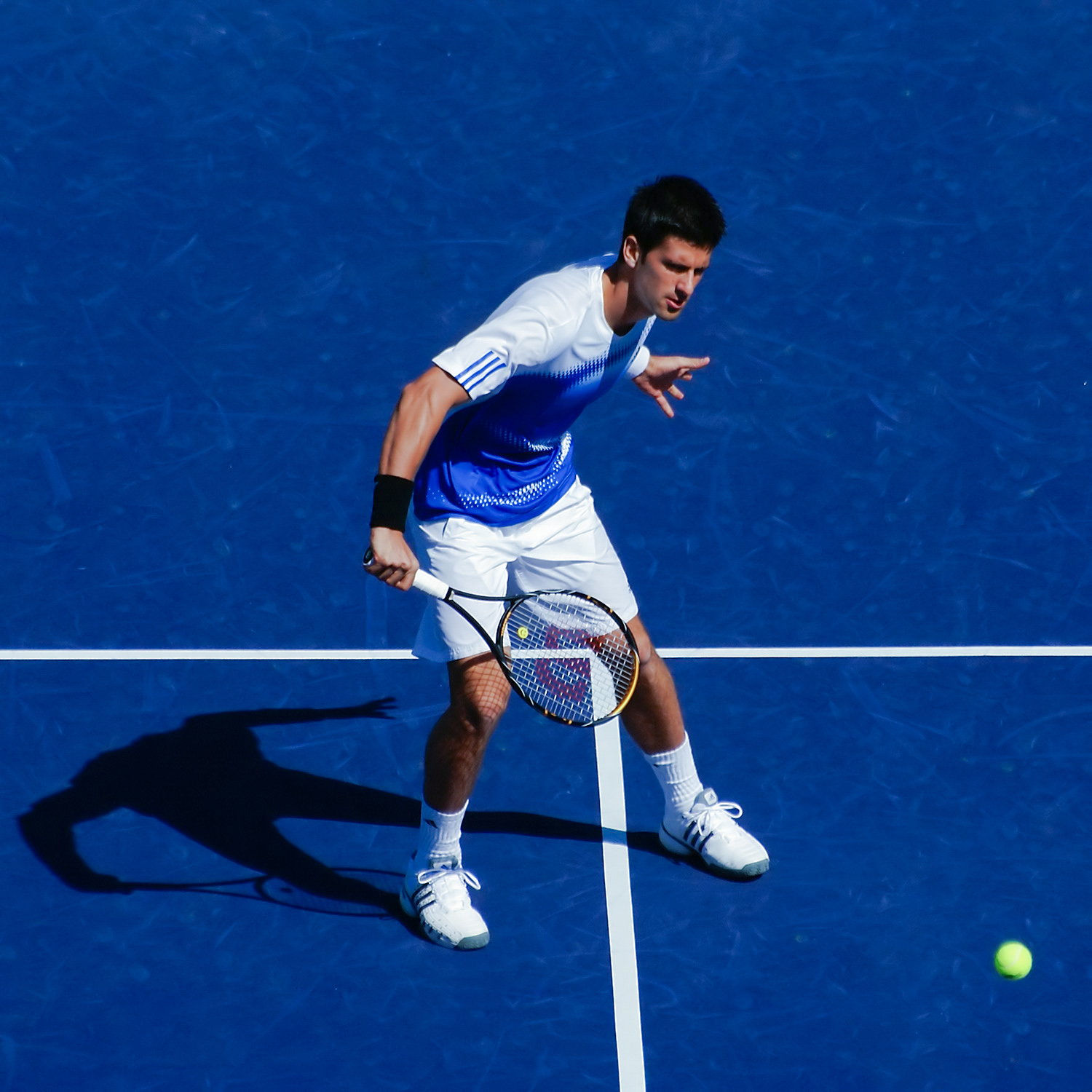 Novak Đoković (Djokovic) hits a volley during his second round match at the 2008 Pacific Life Open.